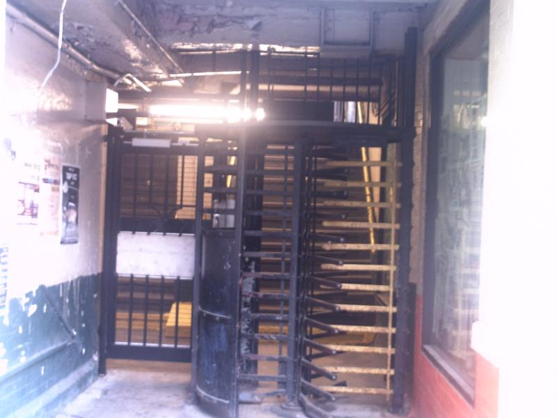 Exit-only turnstile on the southbound side of Avenue J